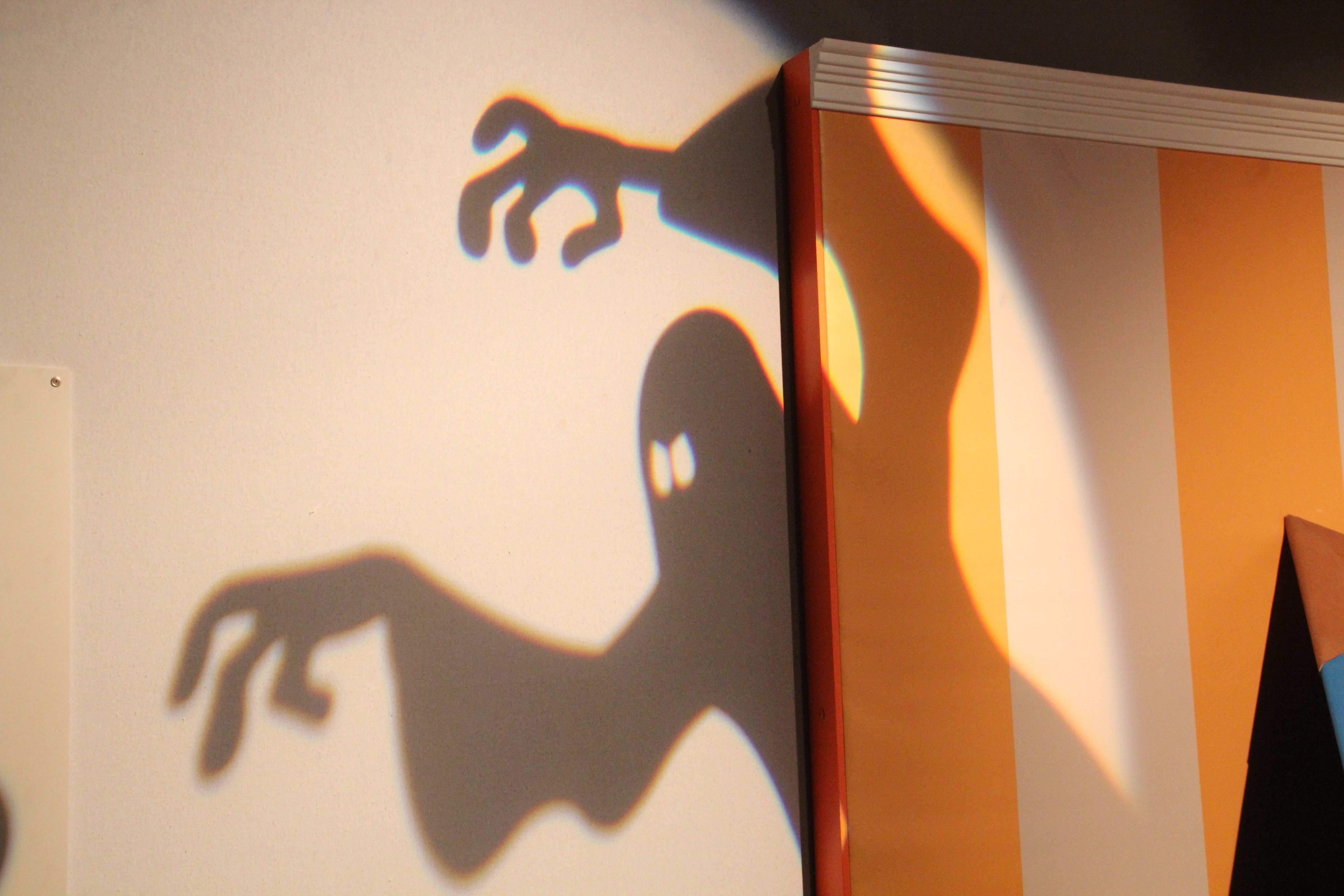 Angoulême International Comics Festival 2013.